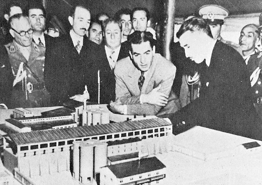 Shah Mohammad Reza Pahlavi attends a presentation of projects of the second development program, 1955